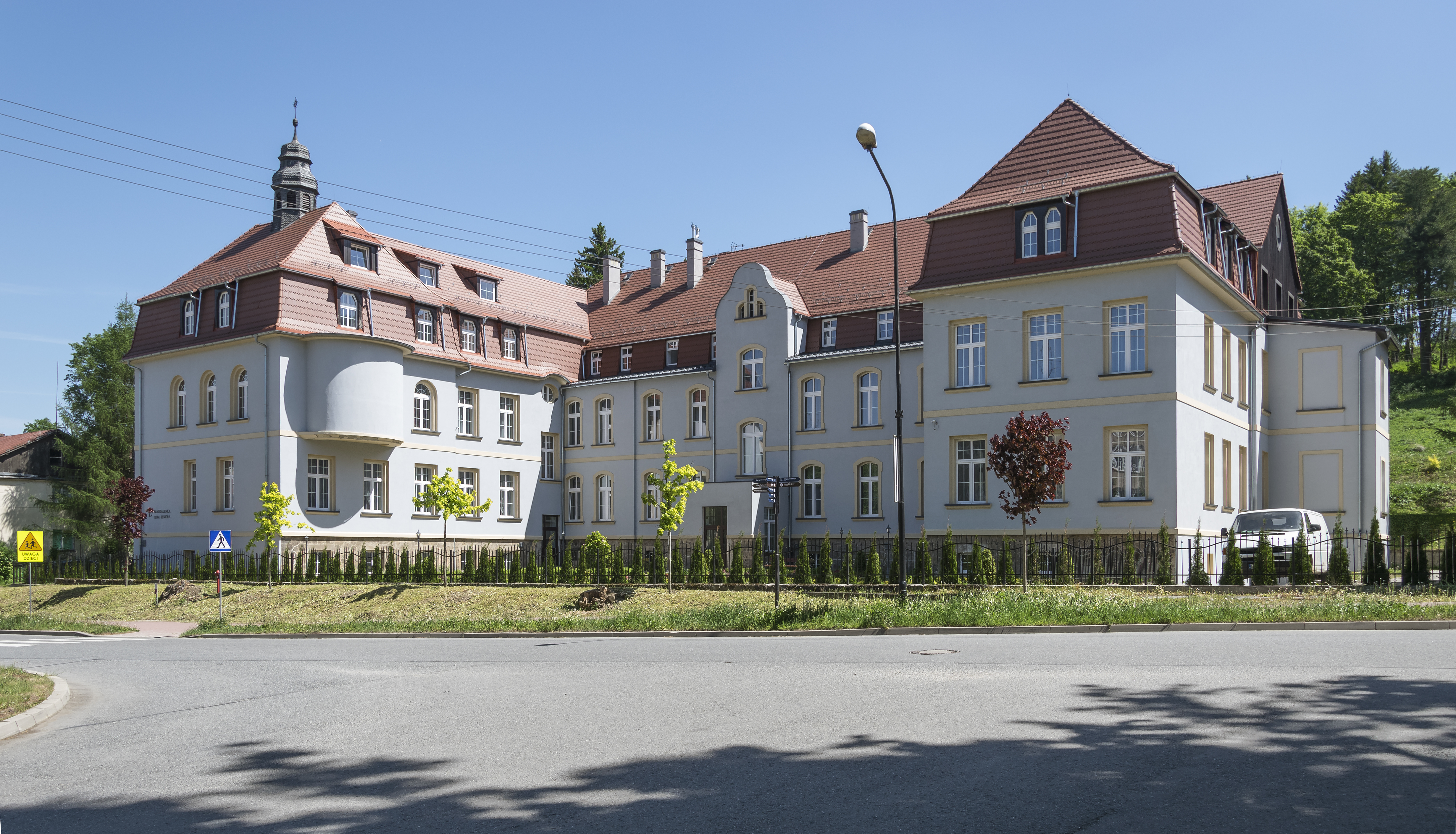 Magalenka nursing home in Duszniki-Zdrój